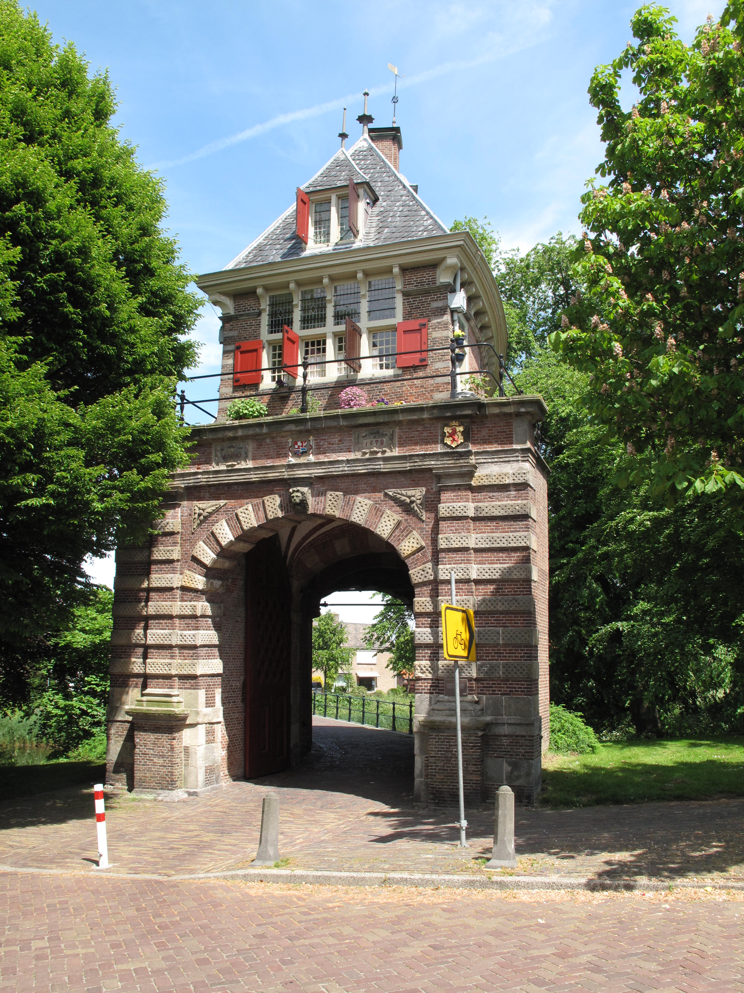 Hoorn, town gate: de Oosterpoort